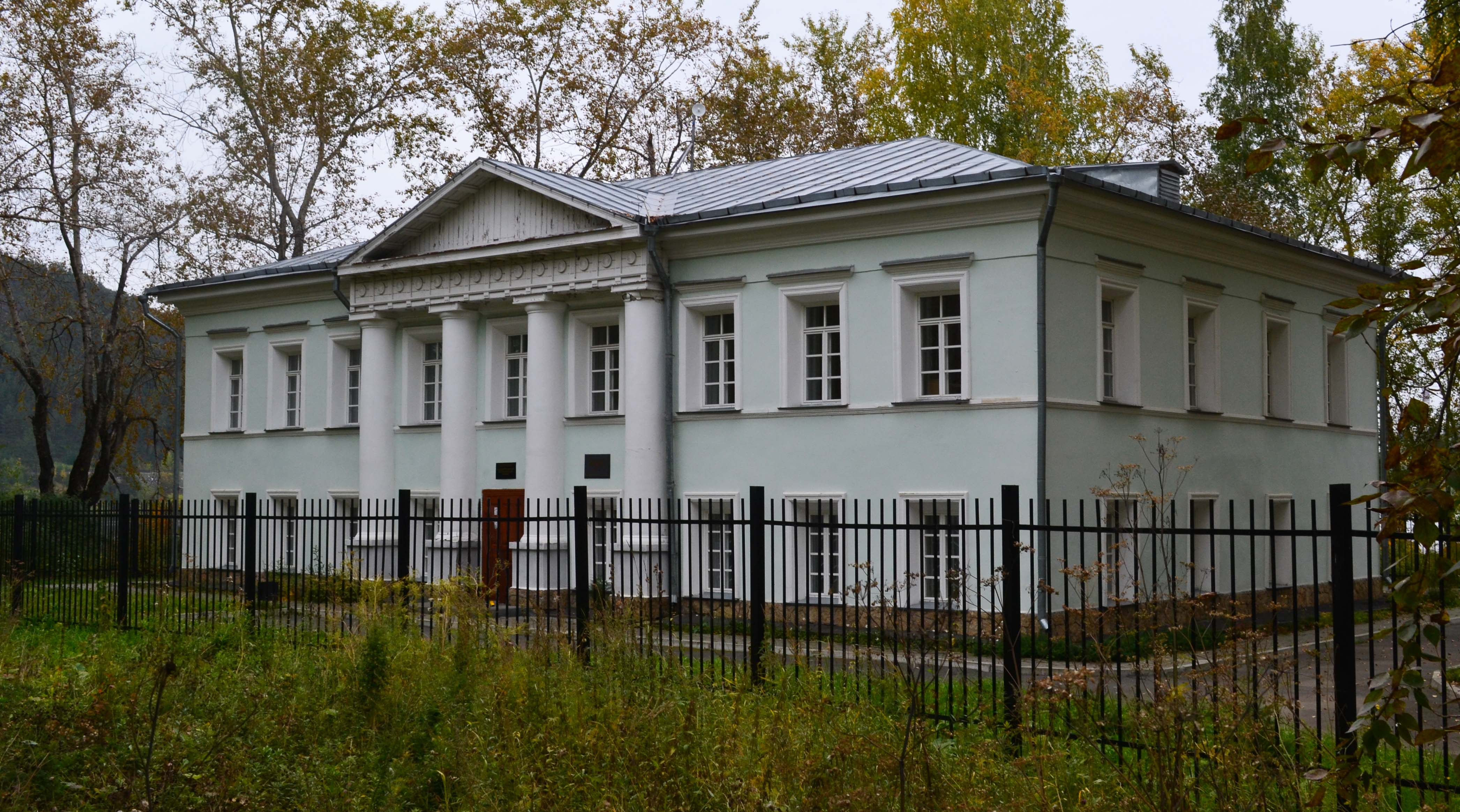 The Local History Museum of Nizhnyaya Tura (the former building of Nizhneturinsky Ironworks' administration). Sverdlovskaya oblast, Russian Federation.Монгол: Нижняя Тура хотны орон нутгийн түүхийн музейн байшин (урьд нь Нижняя Турагийн төмрийн үйлдвэрийн удирдах газрын байшин). Свердловск муж, ОХУ.